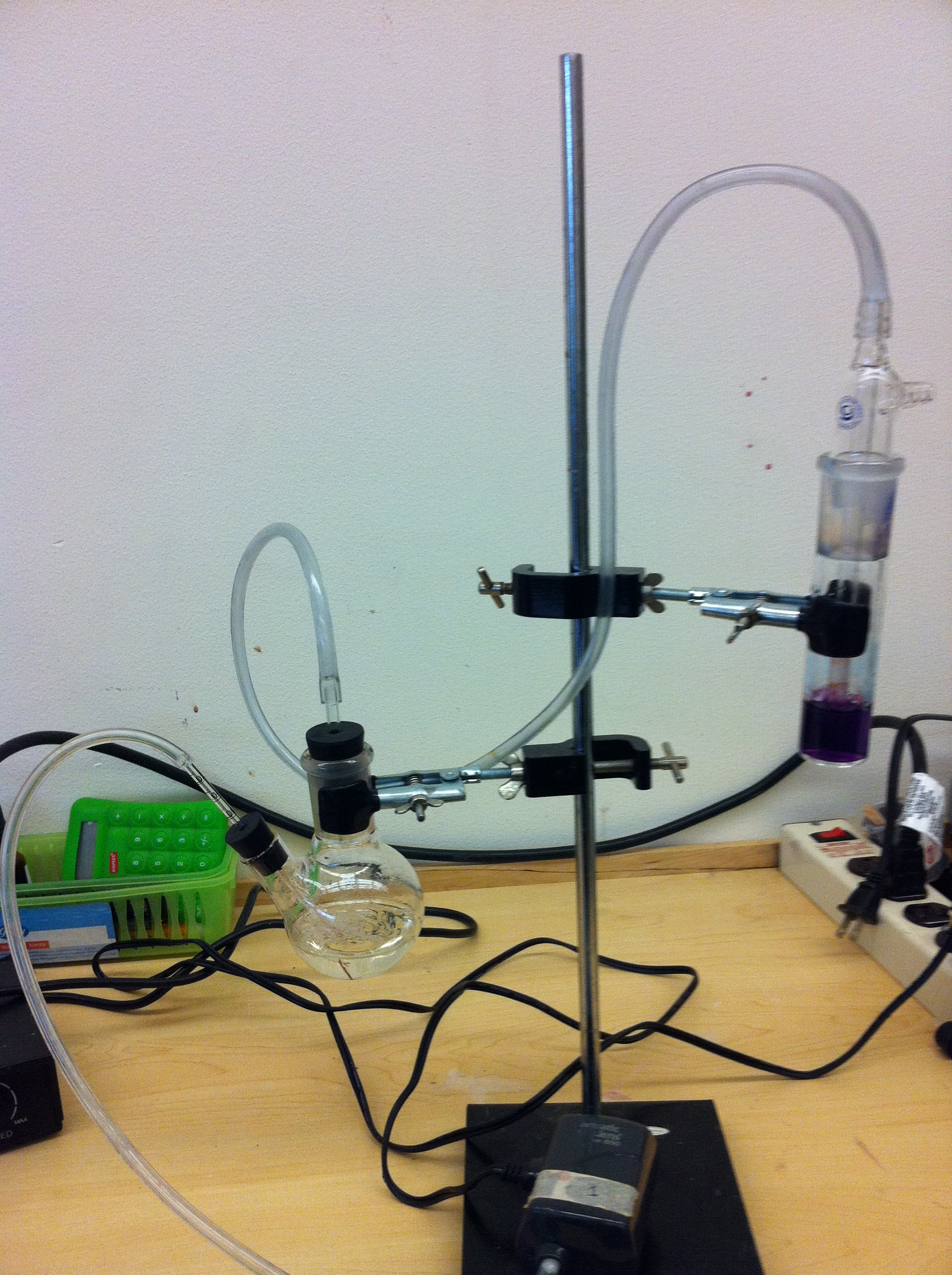 Basic lab equipment to run an aeration oxidation test to measure free and bound sulfur dioxide levels in wine.